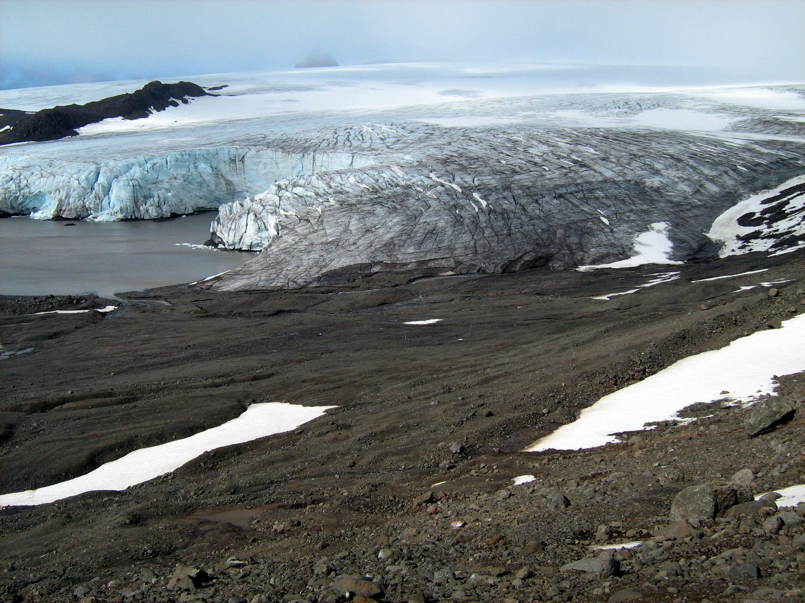 Ecology Glacier (King George Island)